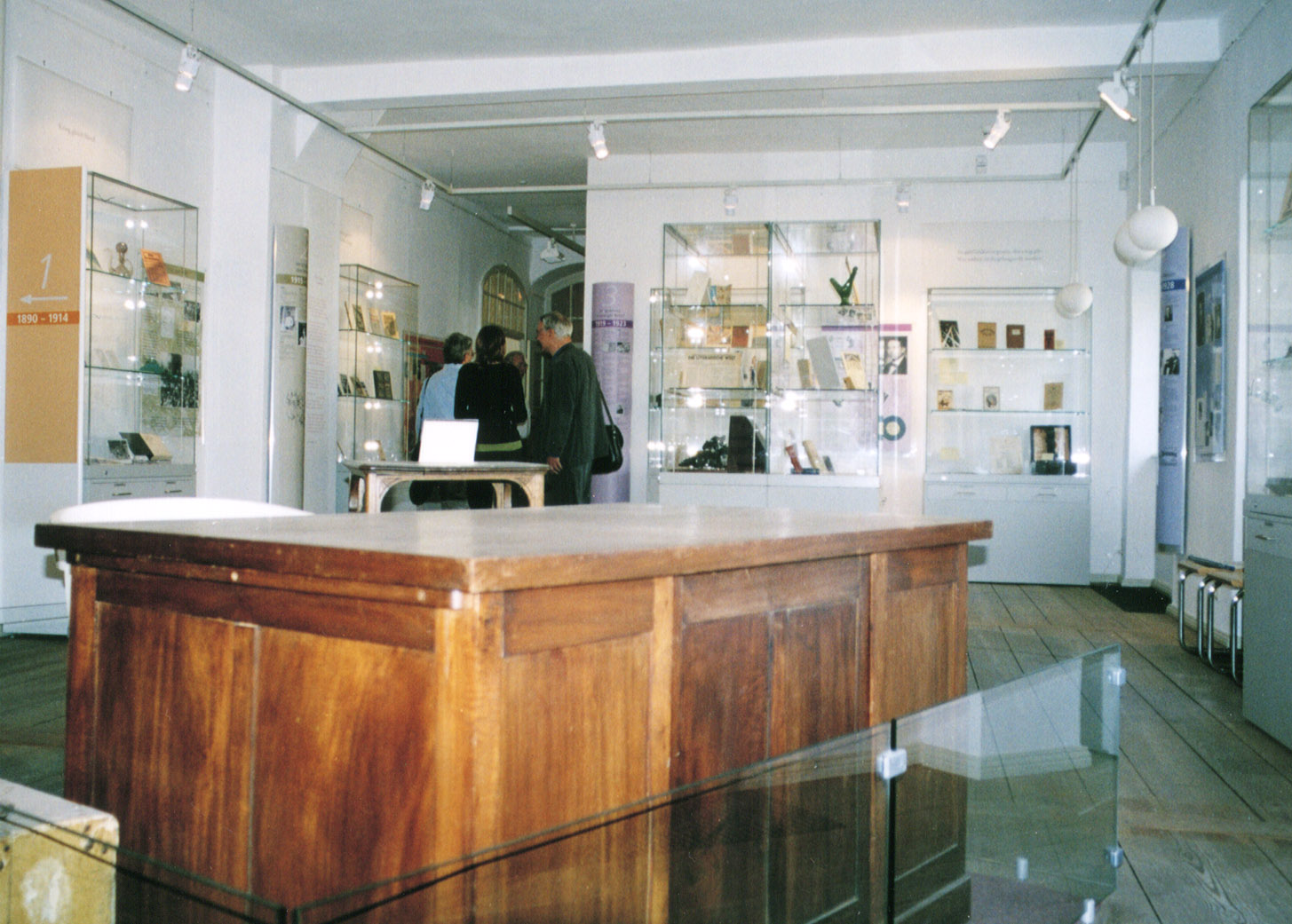 Tucholsky's desk from the villa "Nedsjölund" in Hindås (Sweden). Today in the Tucholsky Literature Museum in Rheinsberg, Germany.